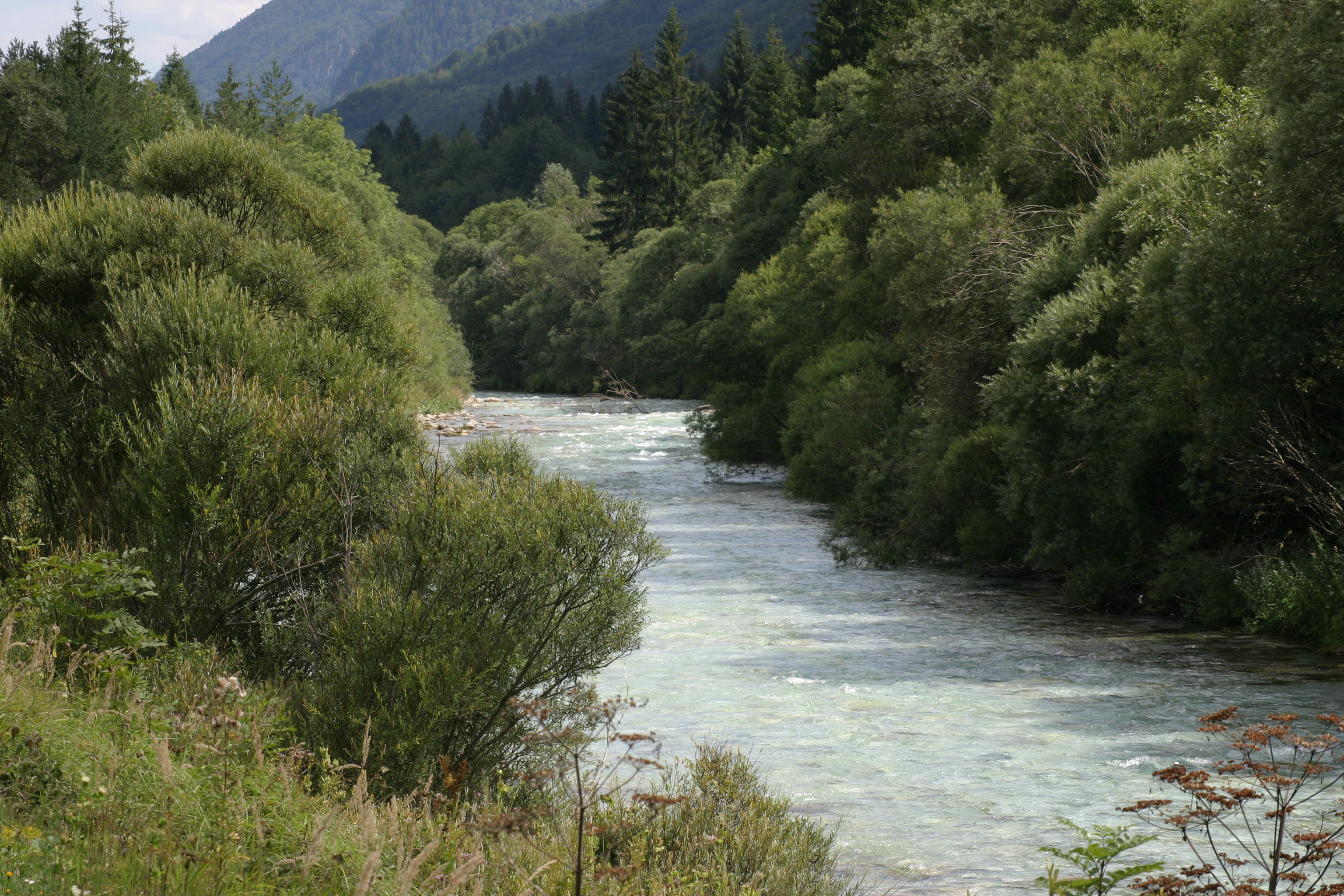 Sava Dolinka above Hrušica